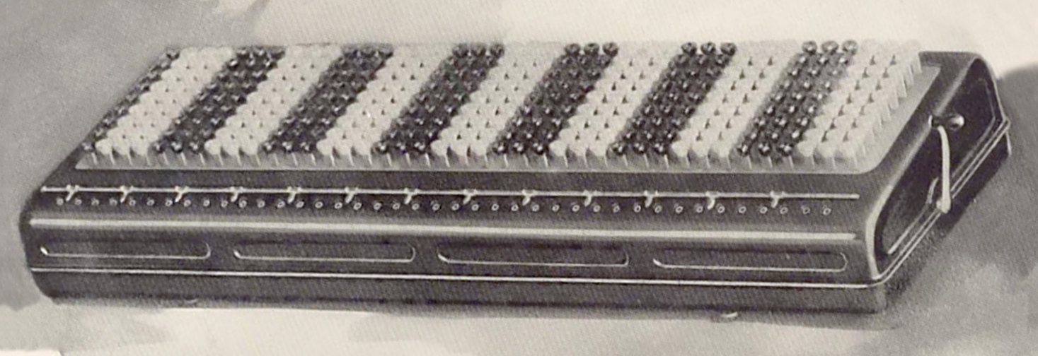 Duodecillion, a 40 digit Burroughs "Class 5 Calculator" (similar to Comptometer) presented in "Panama Expositions" (1915).